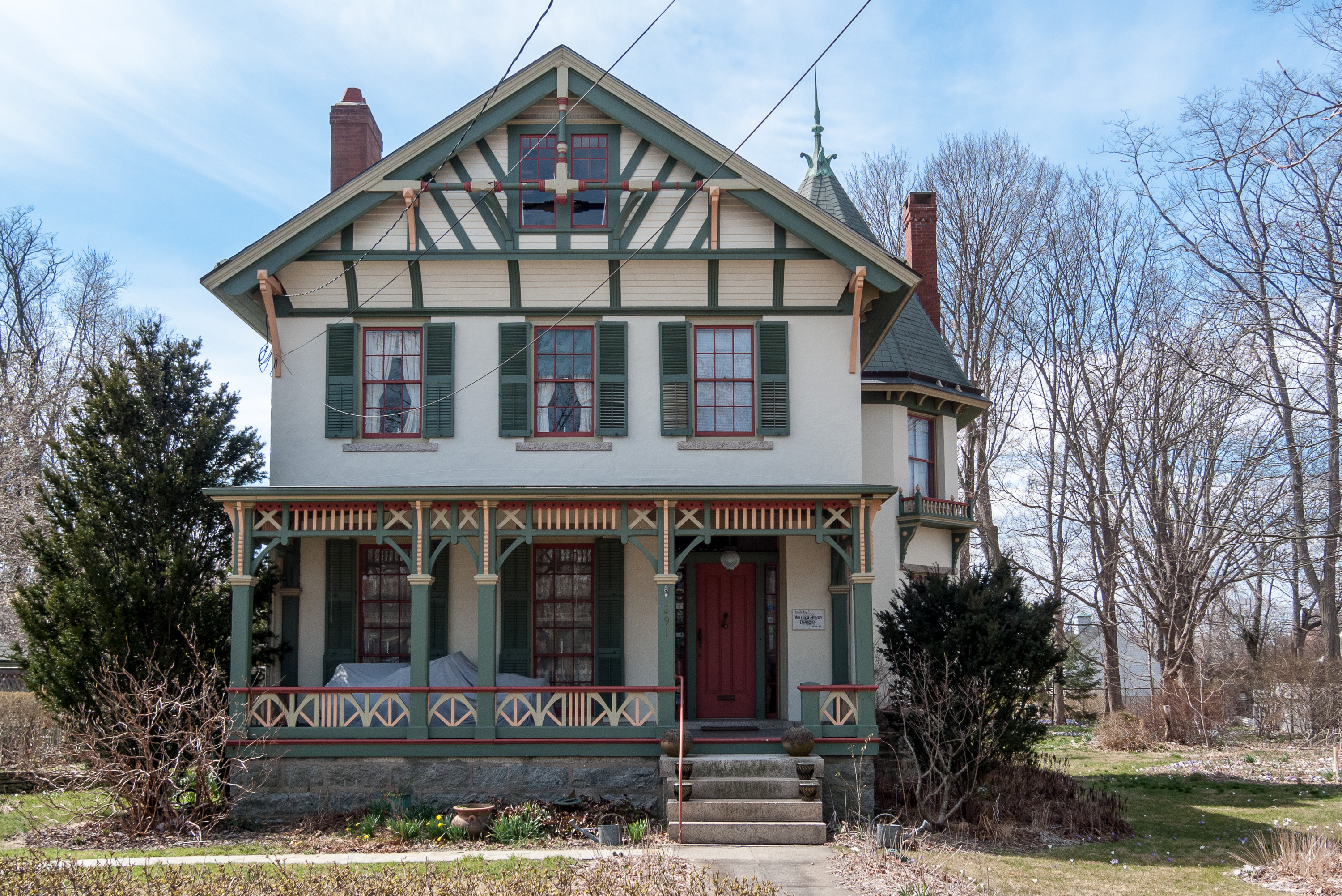 William H. DeWolf - Ramon Guiteras House. ca 1830, 1887. High Street, Bristol, Rhode Island.